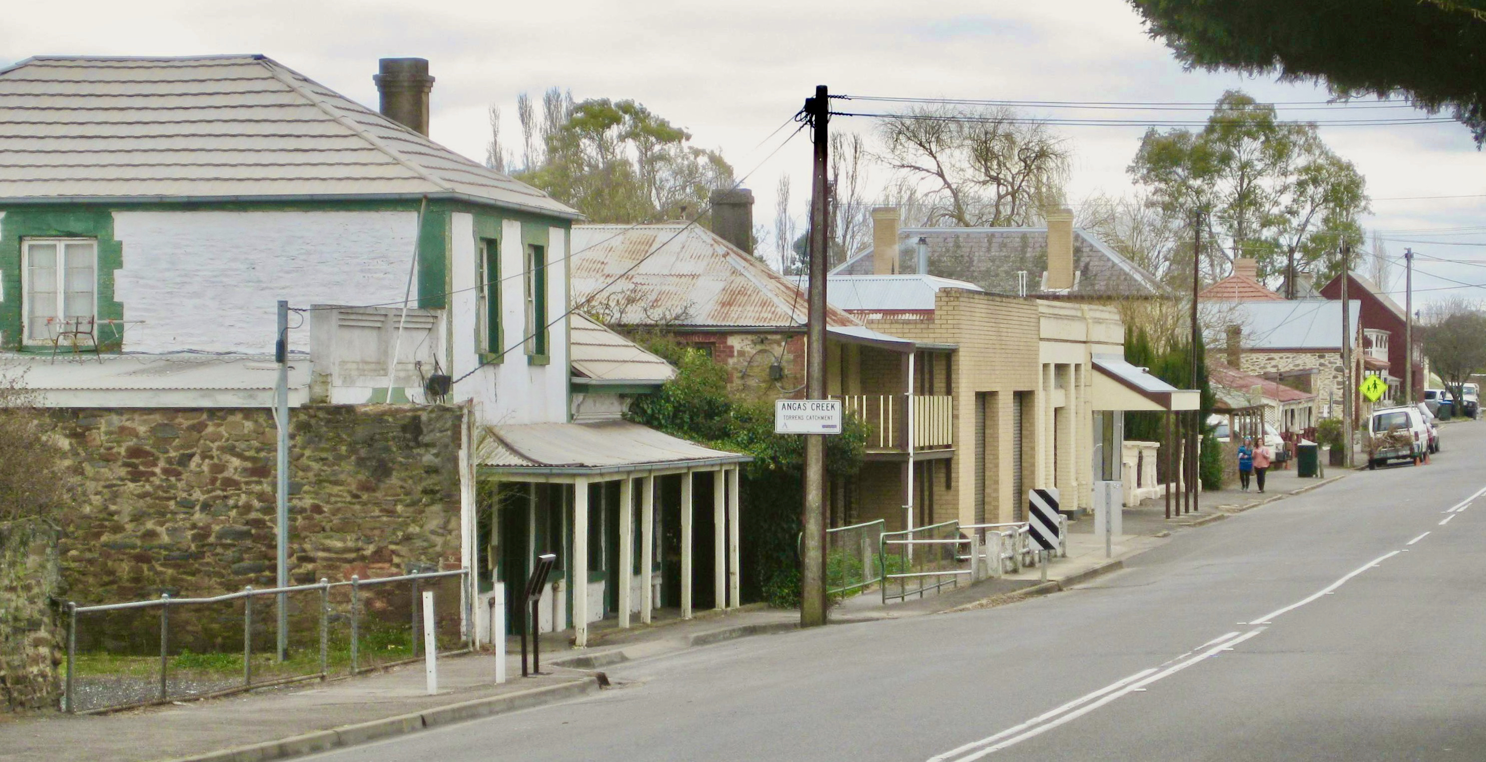 The main street of Mount Torrens, a town located in the Adelaide Hills, South Australia.